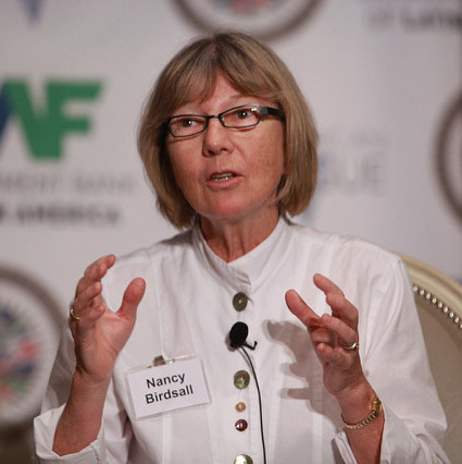 President Nancy Birdsall of the Center for Global Development opens up a discussion on social protests and movements at the XVII CAF Conference.